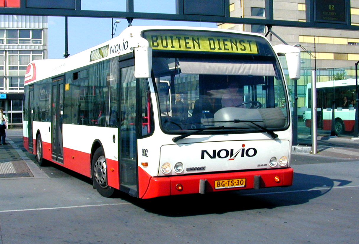 Berkhof Jonckheer 12 city bus (#902, reg. BG-TS-30) with DAF SB250 chassis in Nijmegen, Netherlands. Built 1998, Novio from Nijmegen operator.